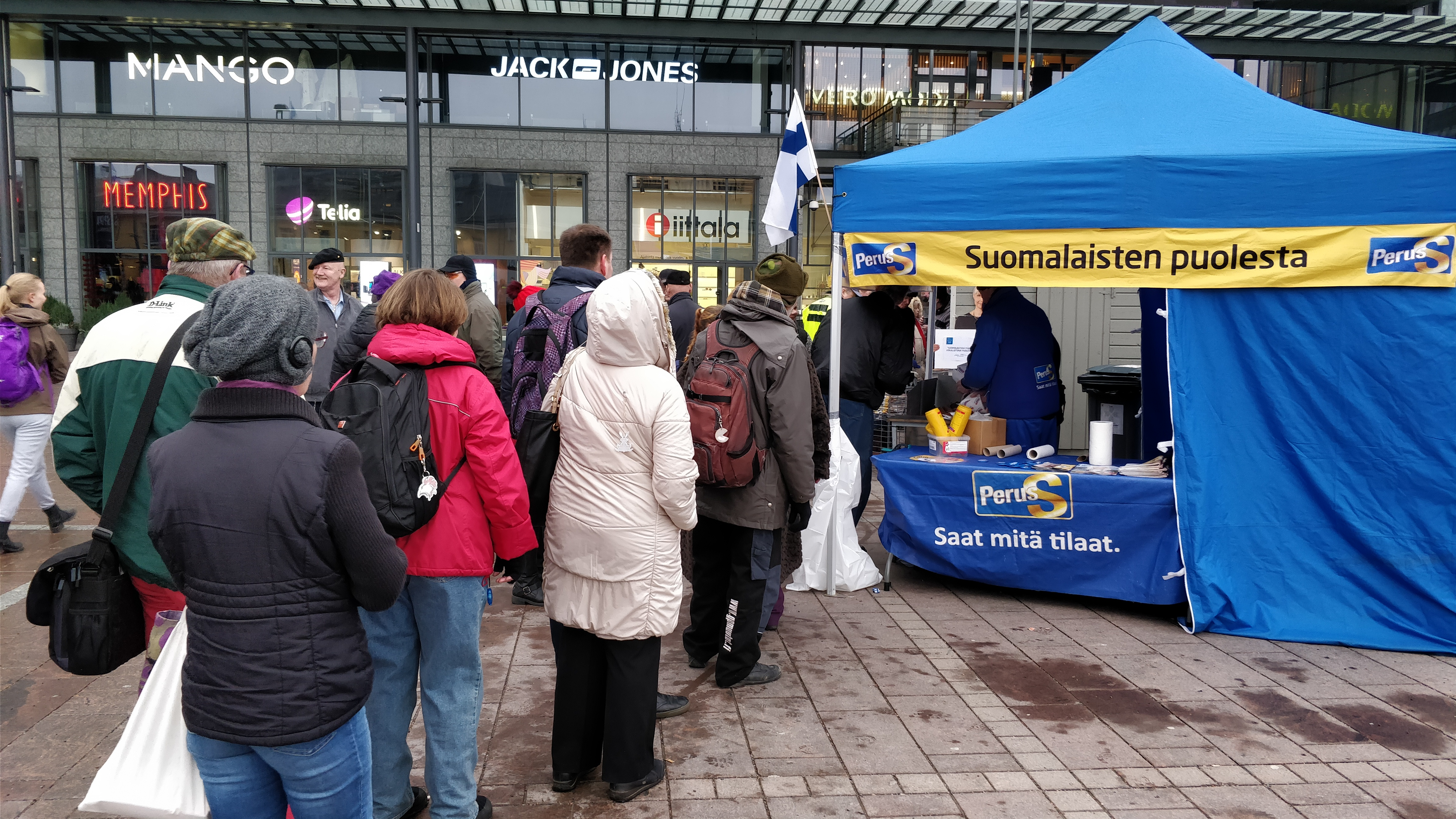 Finns party in Helsinki